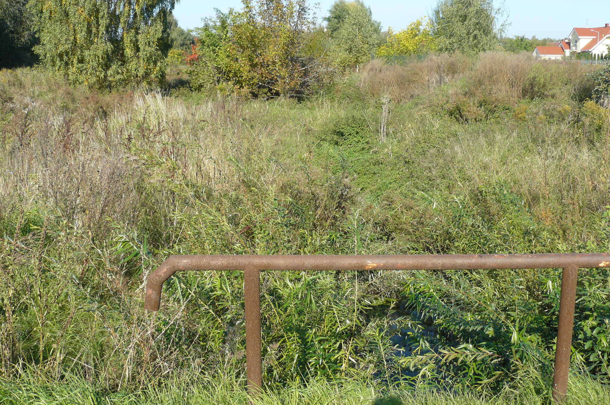 Krzyzanka River, Poznan.